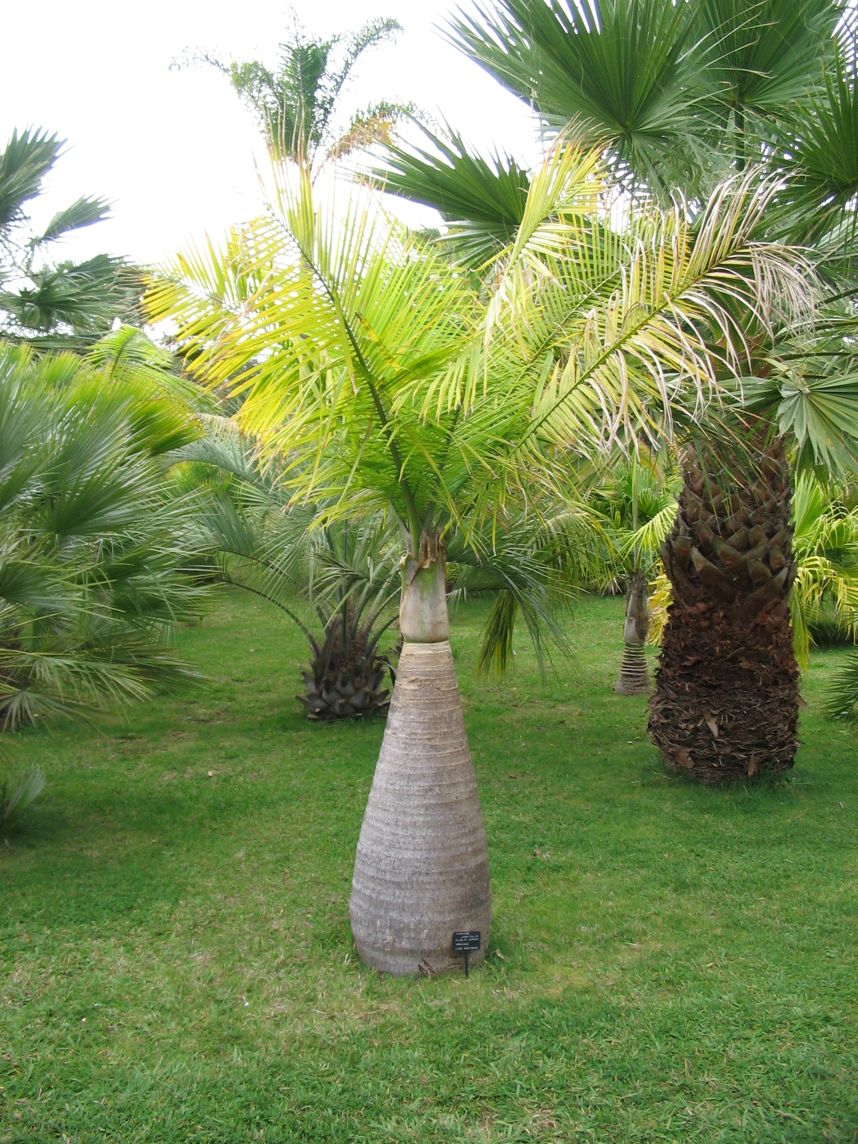 Bottle Palm in the Funchal Botanic Garden